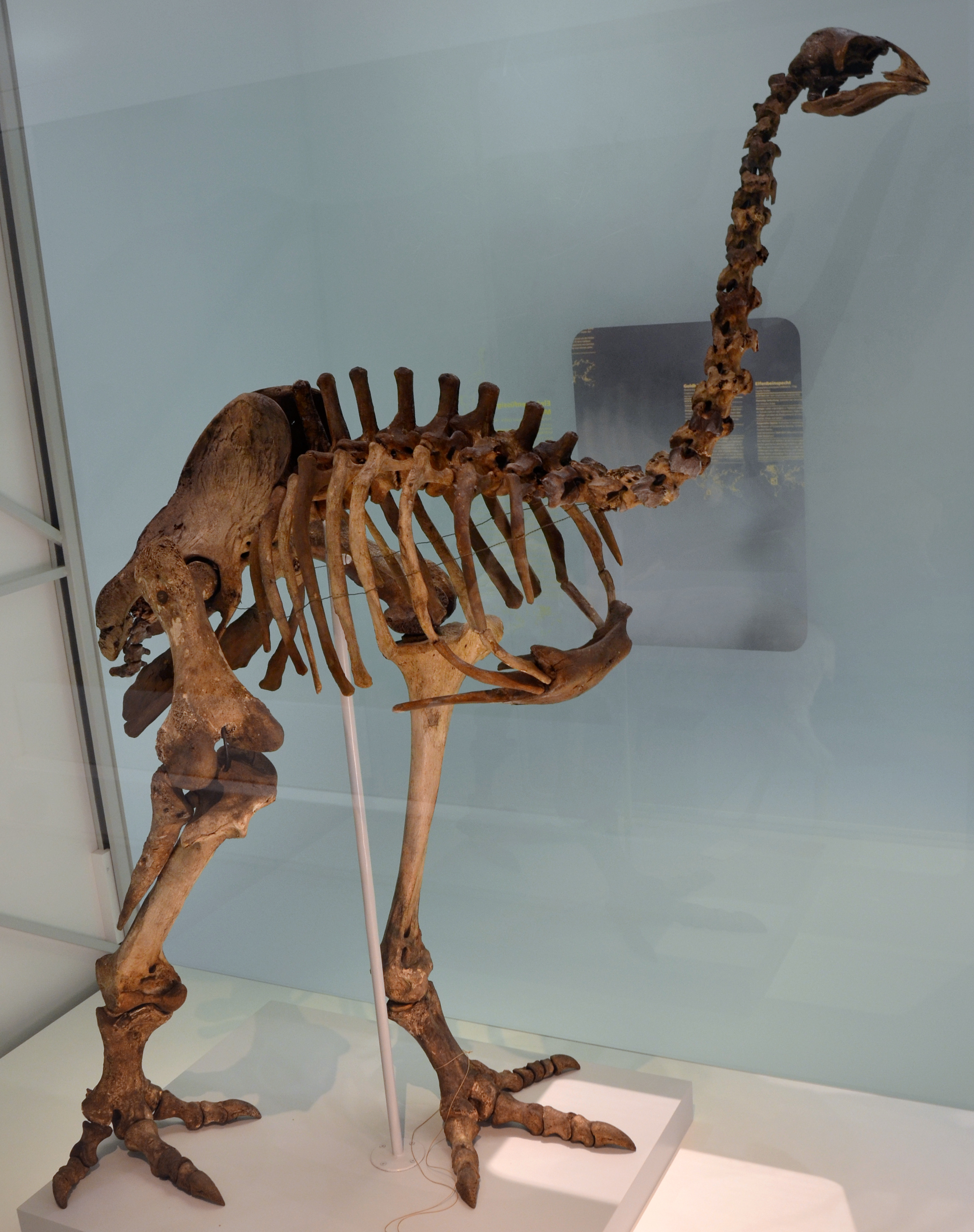 Pachyornis elephantopus skeleton in the Naturhistorisches Museum of Basel.